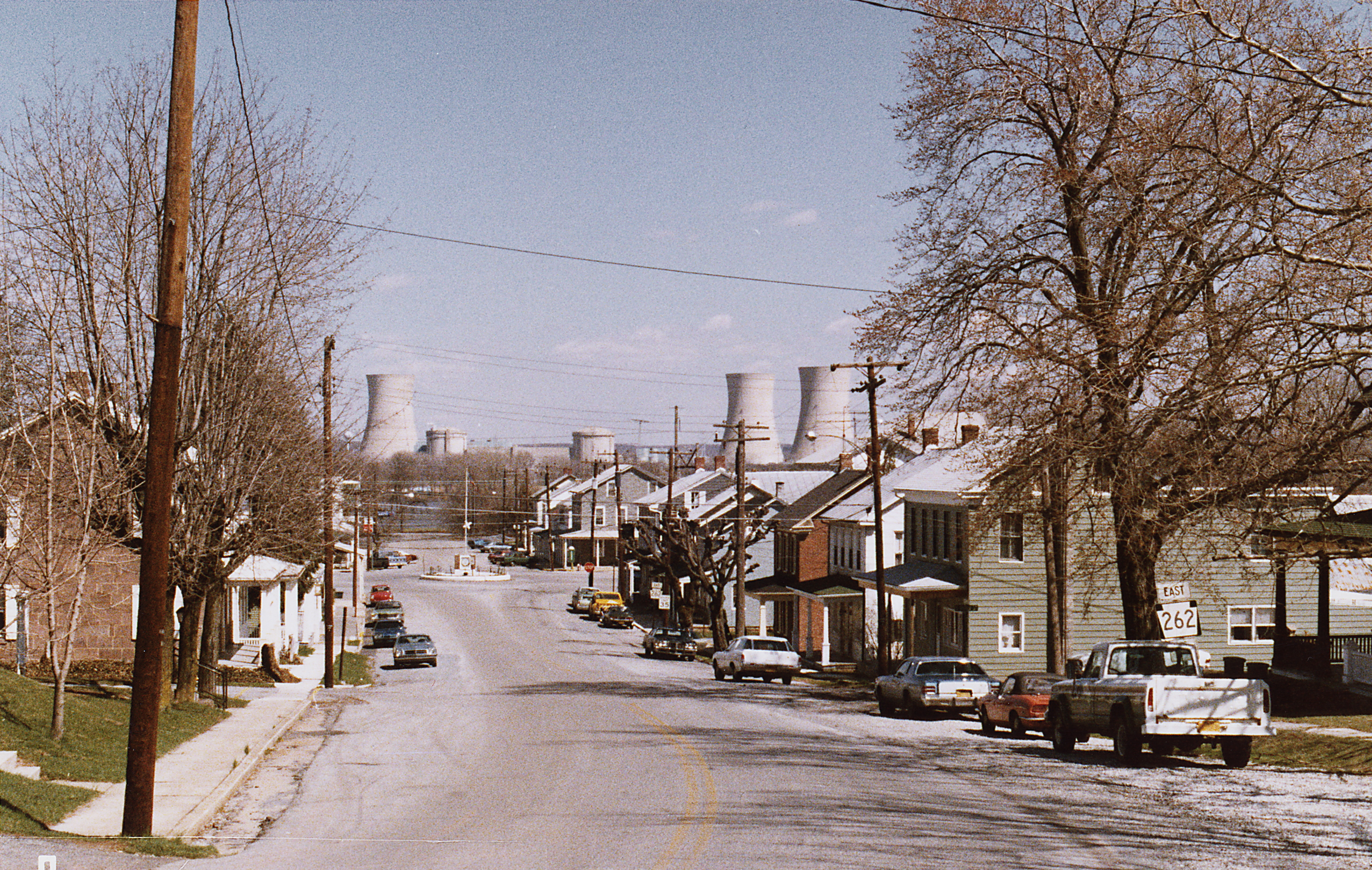 Goldsboro, Pennsylvania. Three Mile Island cooling towers in background